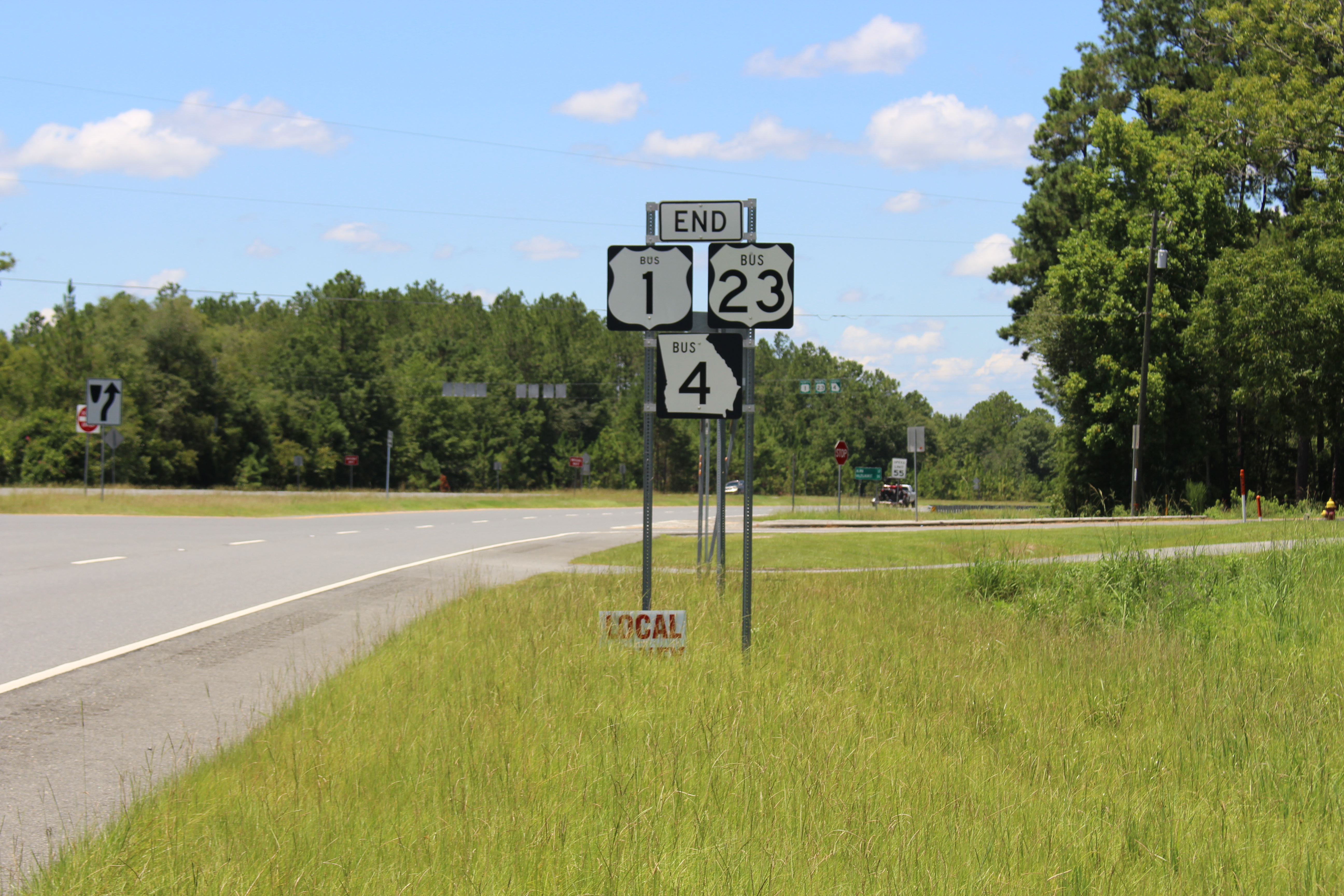 Bus 1, Bus 4, Bus 23 End, Ware County, Georgia